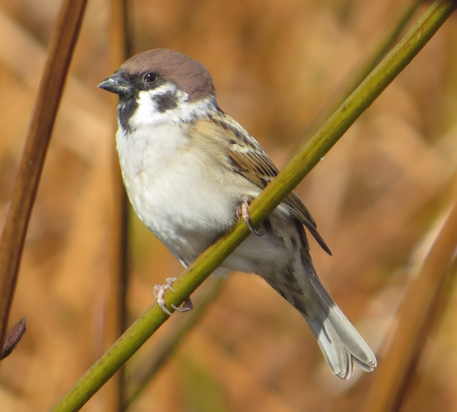 Eurasian Tree Sparrow, Passer montanus saturatus (Stejneger, 1885), in Japan.